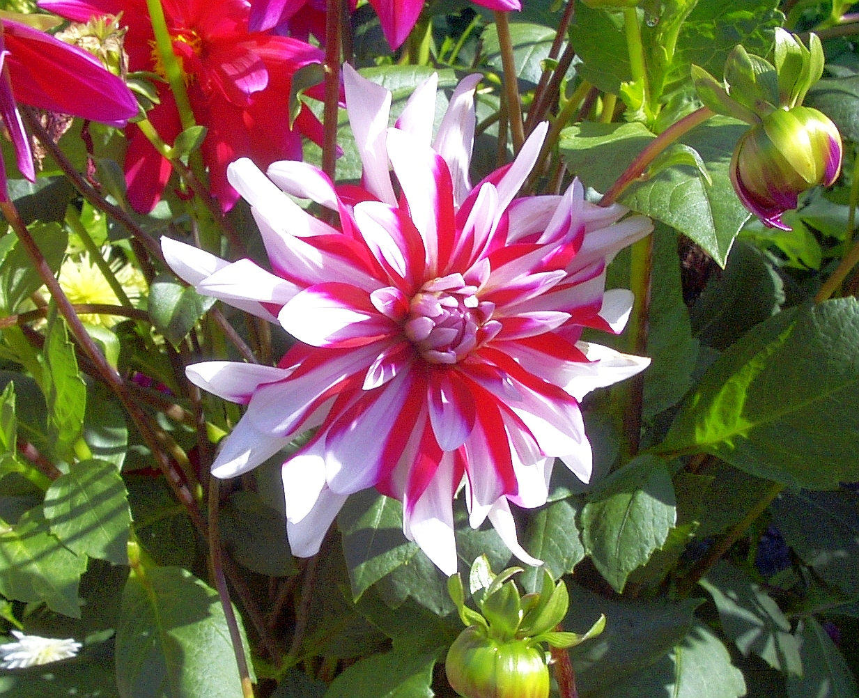 Dahlia